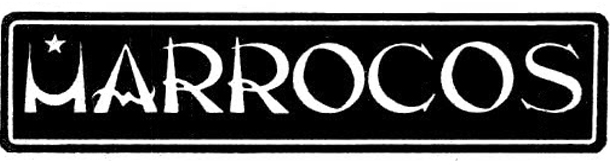 Cine Marrocos - São Paulo - SP Logo